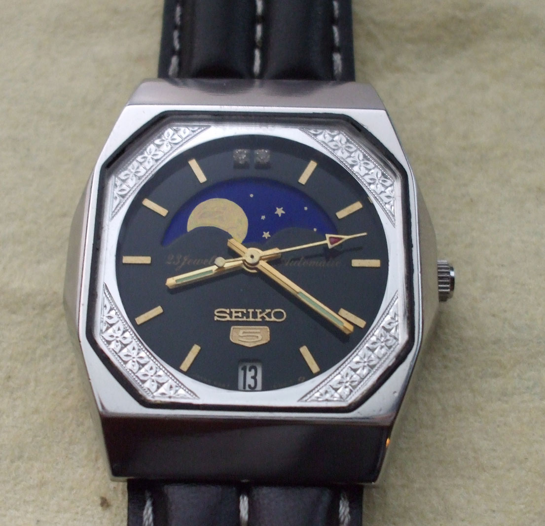 Lunar calender SEIKO Moon Phase watch (Automatic 1985)